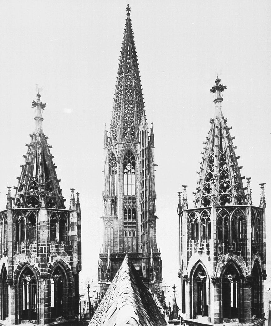 Freiburg Minster, three towers